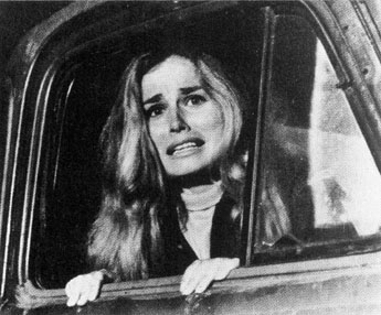 Actress Judith Ridley as Judy in the film Night of the Living Dead (1968).